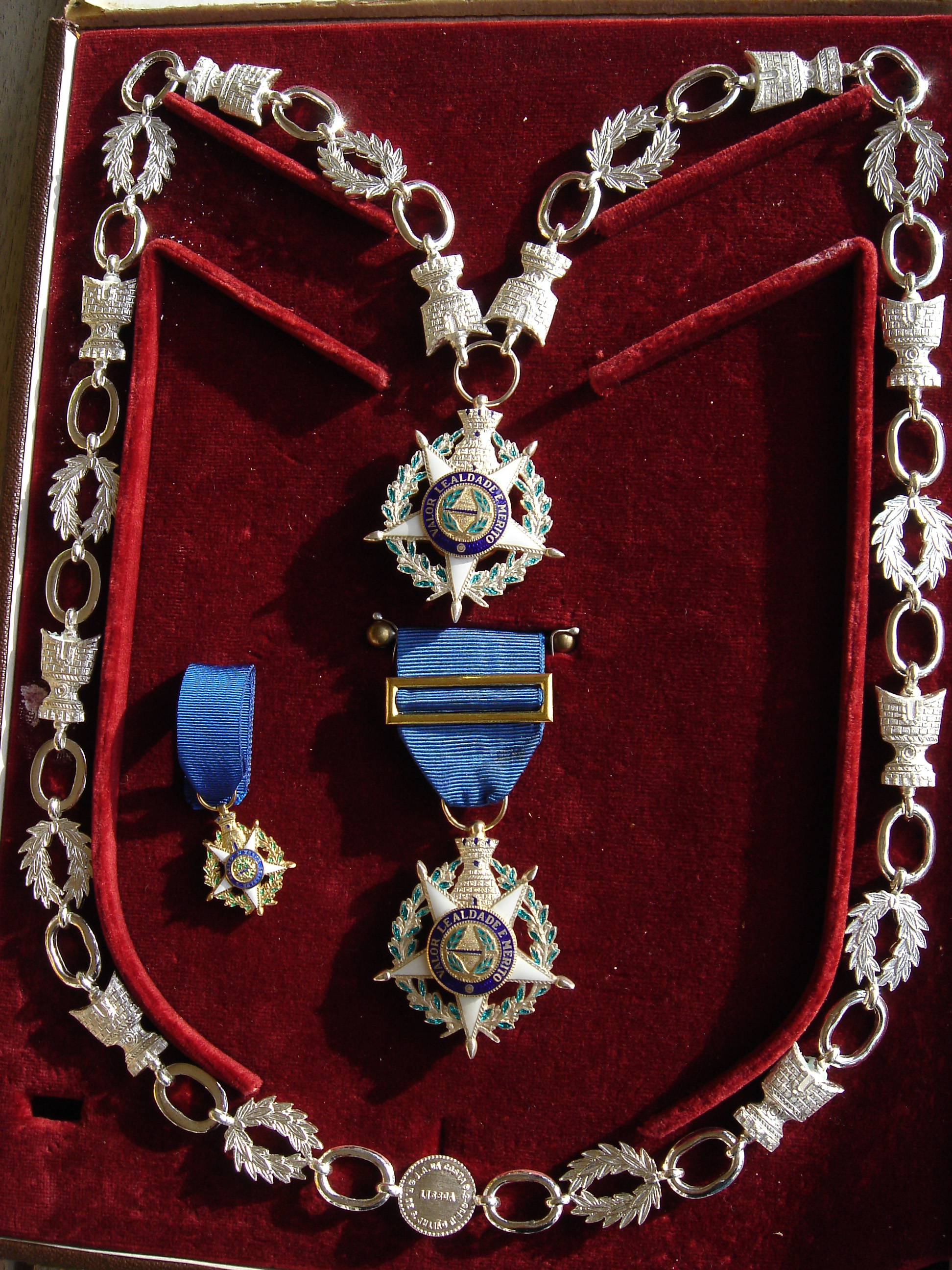 Officer of the Order of the Tower and Sword